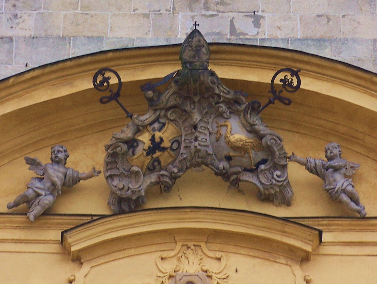 Cistercian Abbey of Zirc